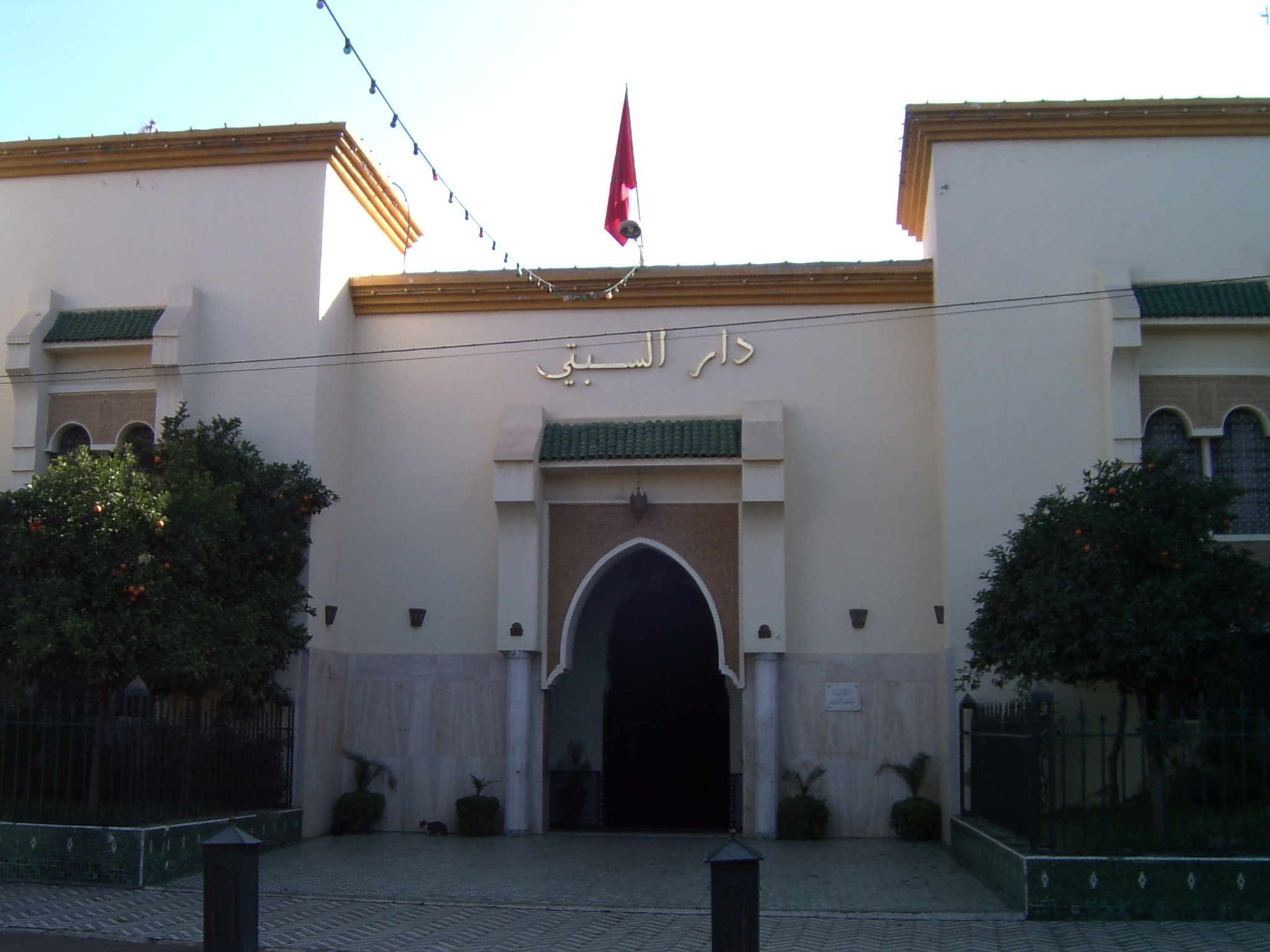 Moorish villa in Oujda city